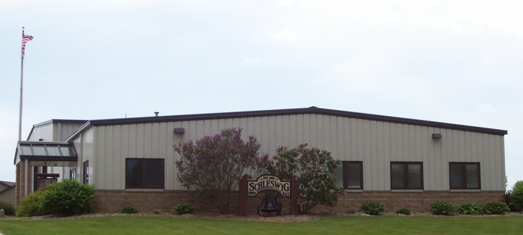 Looking south at the town hall for Schleswig, Wisconsin, U.S.